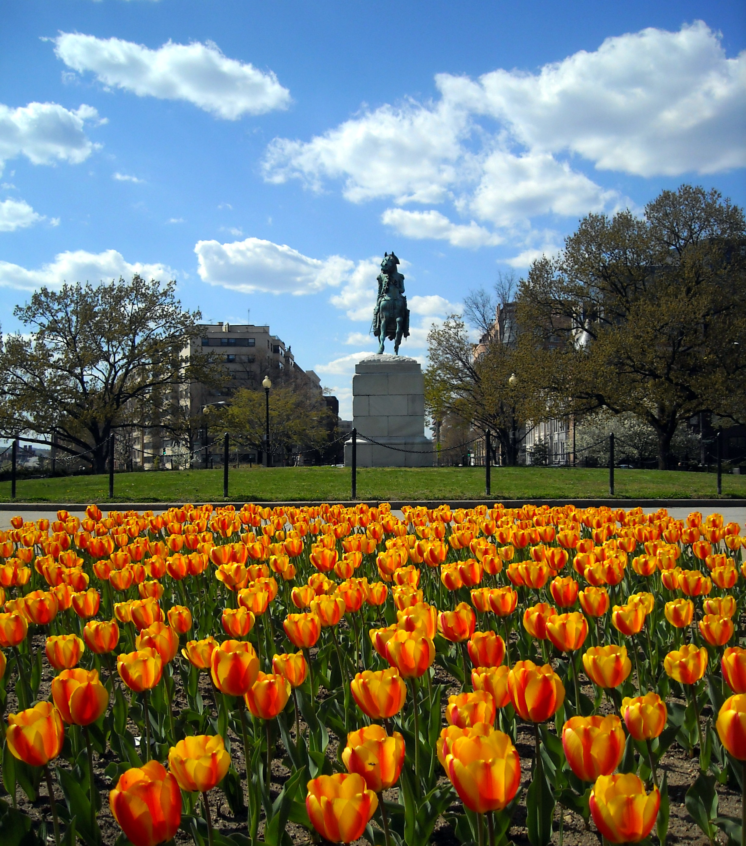 Orange tulips planted in Washington Circle, a traffic circle located at the intersection of Pennsylvania Avenue, New Hampshire Avenue, K Street, and 23rd Street, NW in the Foggy Bottom neighborhood of Washington, D.C. The equestrian statue of George Washington was sculpted by Clark Mills and dedicated in 1859.